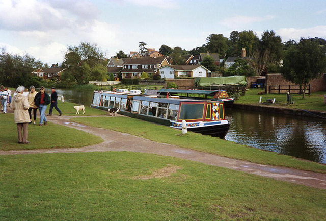 Tiverton: Grand Western Canal terminus. The original scheme, for which an act of Parliament was obtained in 1796, was for a canal linking Taunton to Topsham. The branch from Burlescombe to Tiverton was opened in 1820 and brought limestone to the town from Canonsleigh quarries. Later Tiverton was linked to Taunton but the section from Holcombe Rogus to Taunton was abandoned in 1865. A series of old limekilns built into the superstructure survive underneath the elevated canal terminus. No less than twenty were in use here and in nearby Limekiln Road in the 1830s